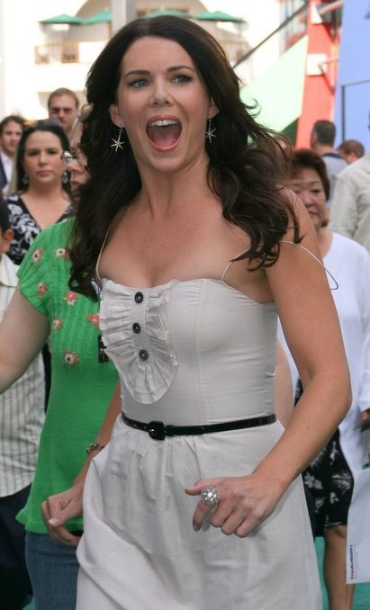 You know her from "Gilmore Girls." Photo taken at the Evan Almighty premiere.